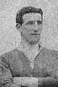 John McConnell - Taken from a Wakefields postcard produced in 1906.